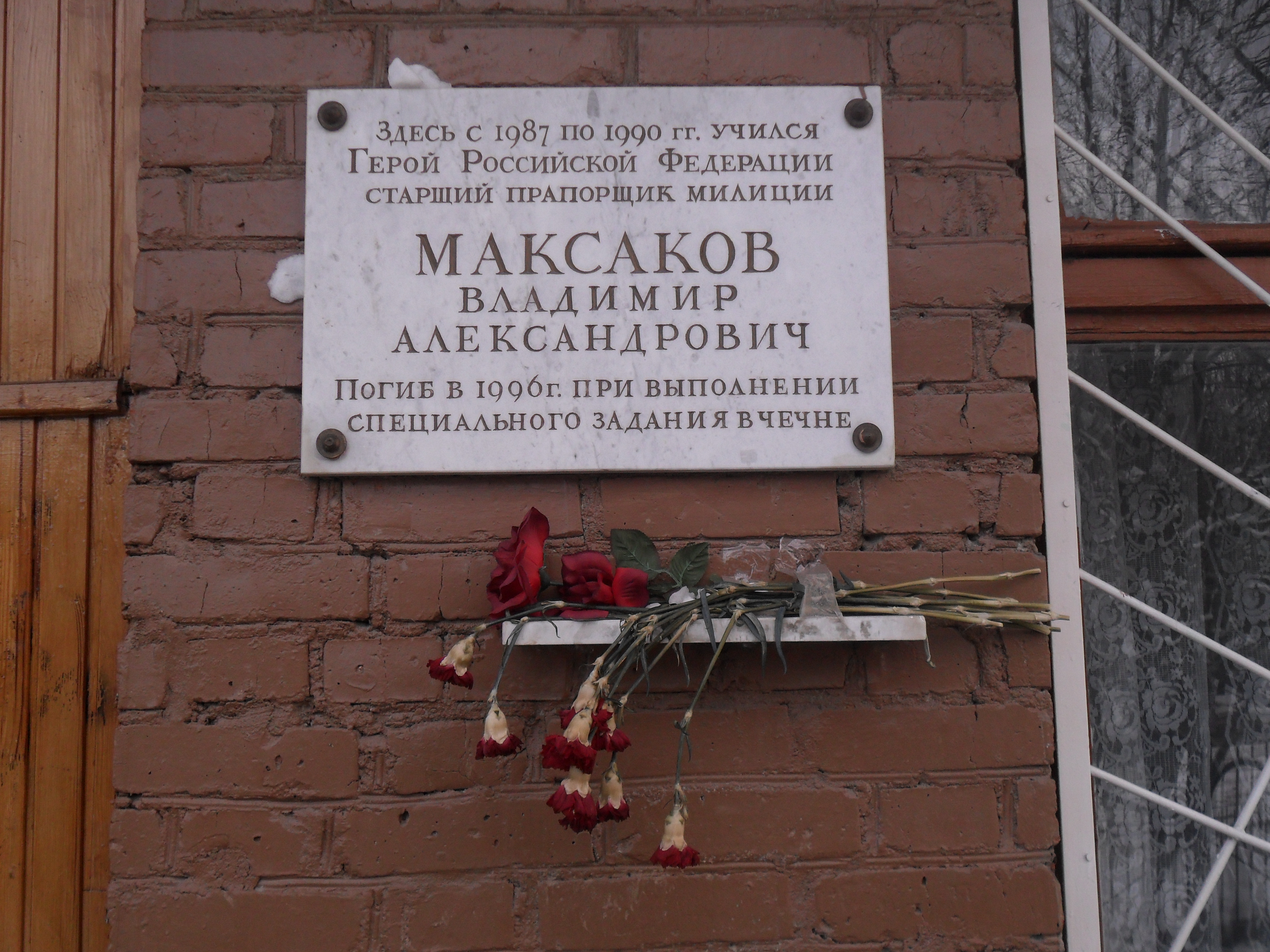 A plaque in memory of Hero of Russia Vladimir Maksakova on the building of school № 8 of Smolensk.